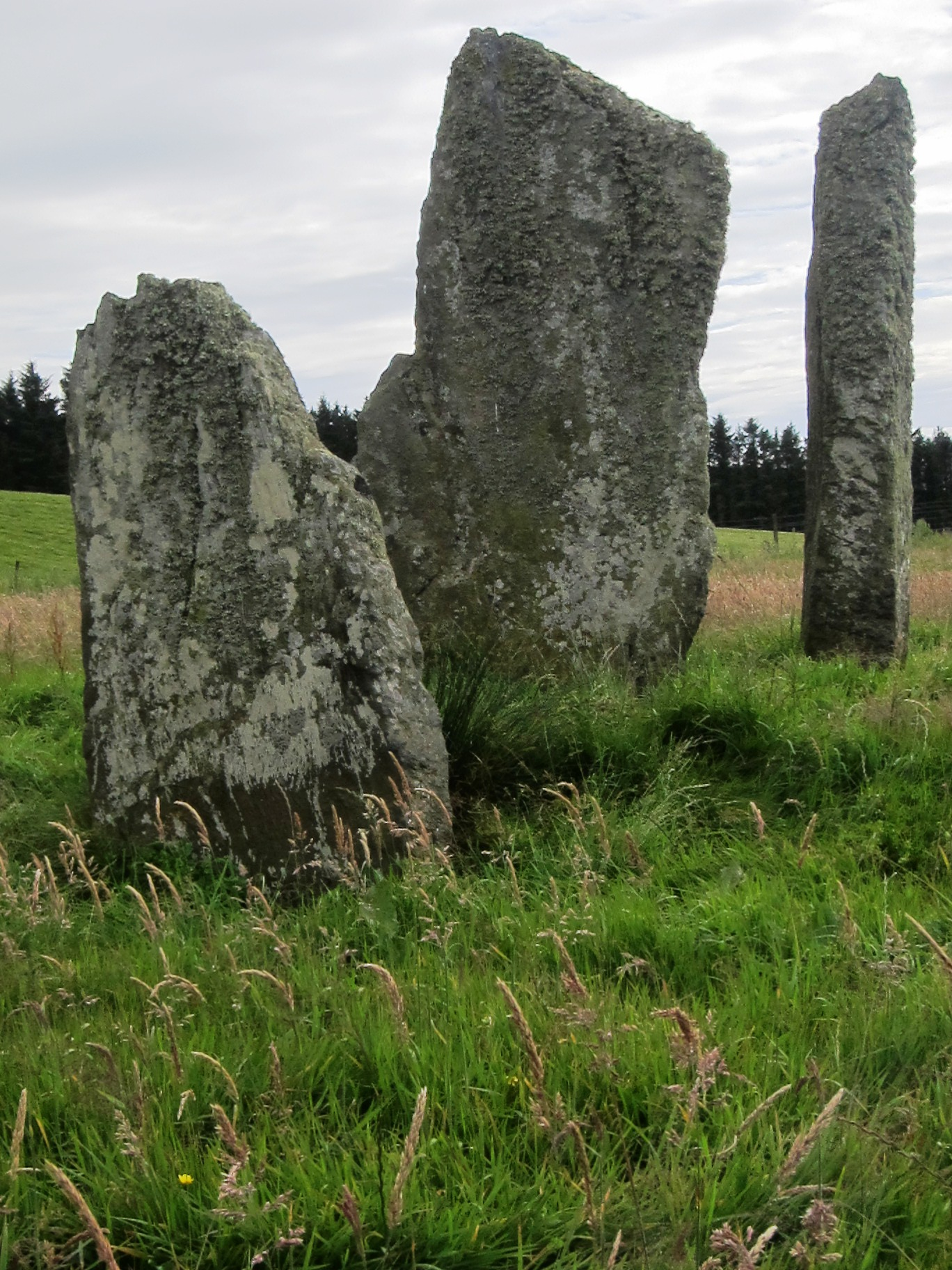 Grouping of the three stones at Ballochroy